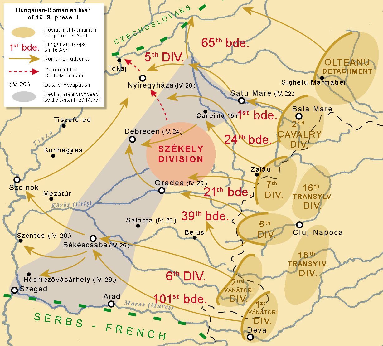 Hungarian-Romanian War of 1919, Romanian advance to Tisza (Language: English)